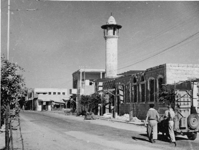 A second mosque in Ramleh, 1948 , from the Palmach archive